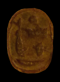 Egyptian scarab of pharaoh Menibra, an obscure proto-saite ruler (possibly Nekauba or Tefnakht II [ref: Kitchen, K., The Third Intermediate Period in Egypt (1100–650 BC), 3ª ed., Warminster, Aris & Phillips Limited, 1996, § 117, n. 267-269]). Grey steatite, unknown provenience. Reign of Menibra, proto-26th dynasty, Late period. Museo civico archeologico, Bologna (Italy), KS 2670. [ref: Jaeger, B. 1993, Les scarabées à noms royaux du Museo civico archeologico de Bologna. n°114]